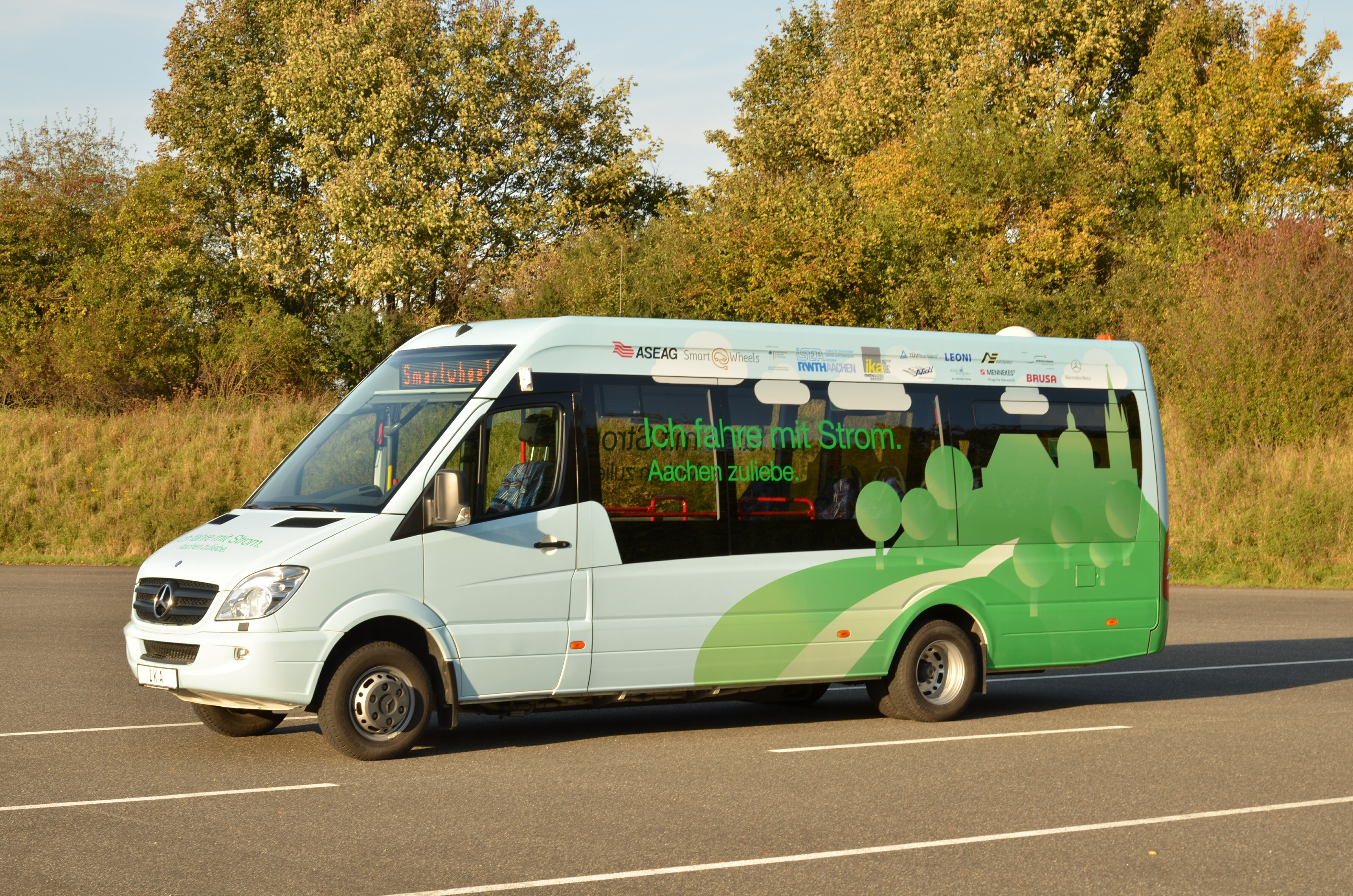 Electric city bus developed by IKA within the Smartwheels project